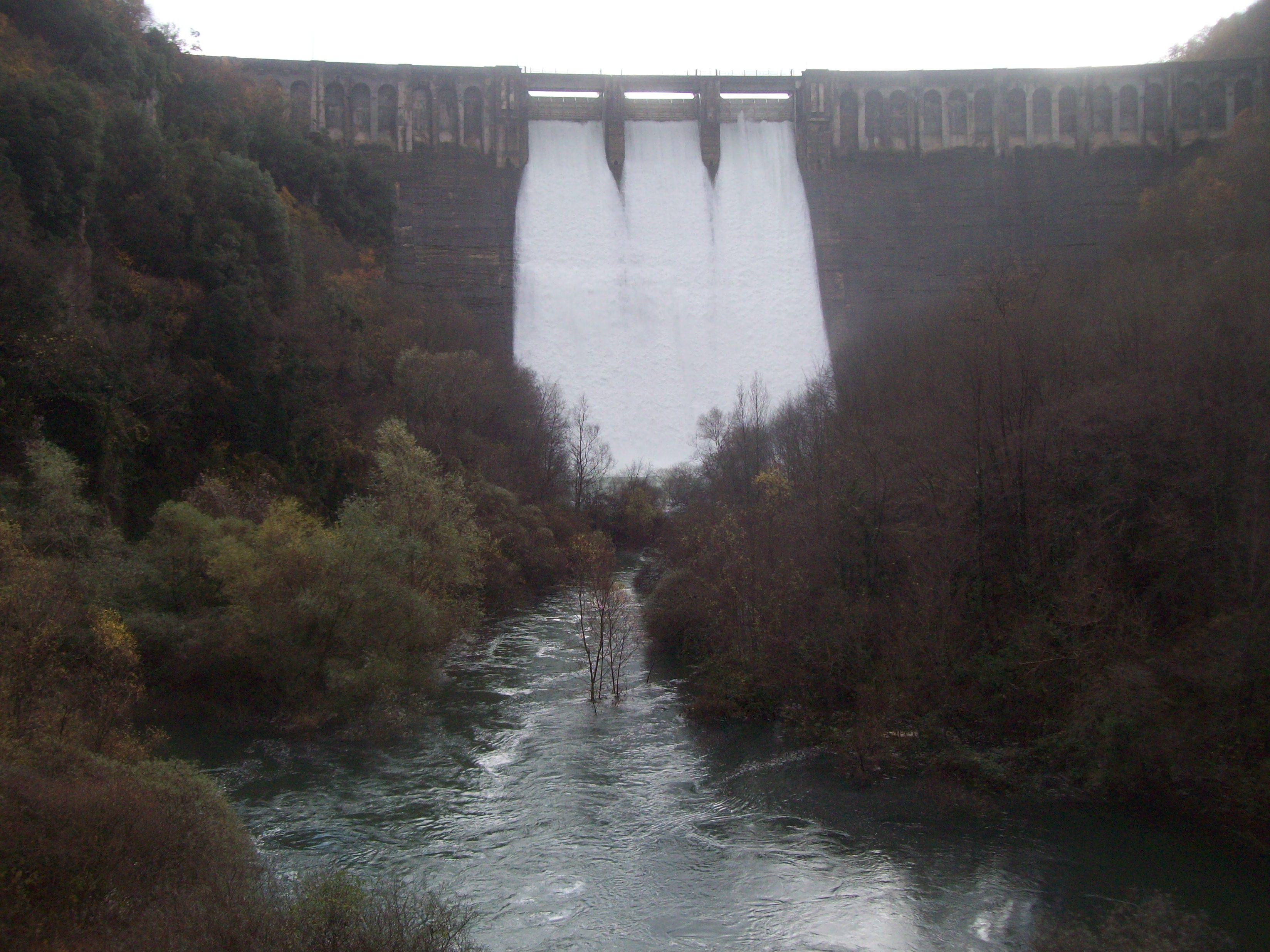 Dam's Lake Turano